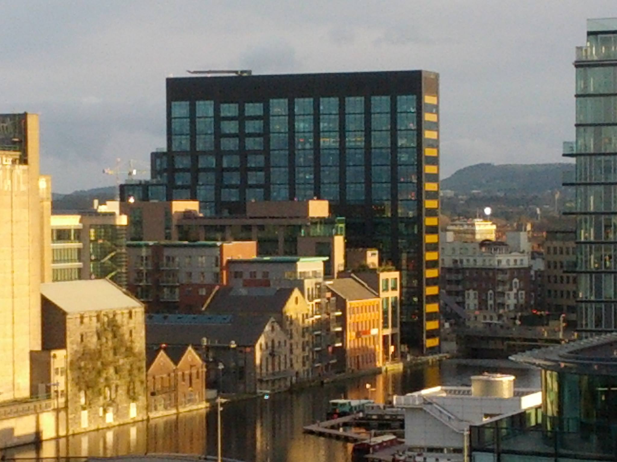 This photo of the Google Docks building was taken from the roof of The Marker Hotel